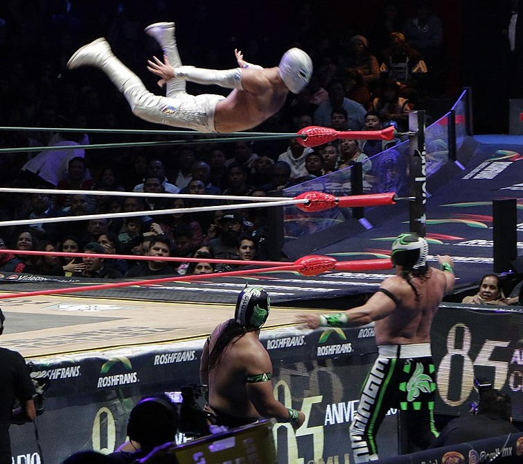 Viernes 30 de noviembre de 2018Arena México, ceremonia de develación de la placa conmemorativa por el reciente decreto de la Lucha Libre como Patrimonio Cultural Intangible de la Ciudad de México, estuvieron presentes autoridades del Consejo Mundial de Lucha Libre, y autoridades del gobierno de la CMDX, entre ellos Gabriela López Torres, coordinadora de Patrimonio Histórico Artístico y Cultural de la Secretaría de Cultura de la CDMX, además de invitados especiales.Fotografía: Tania Victoria/ Secretaría de Cultura CDMX